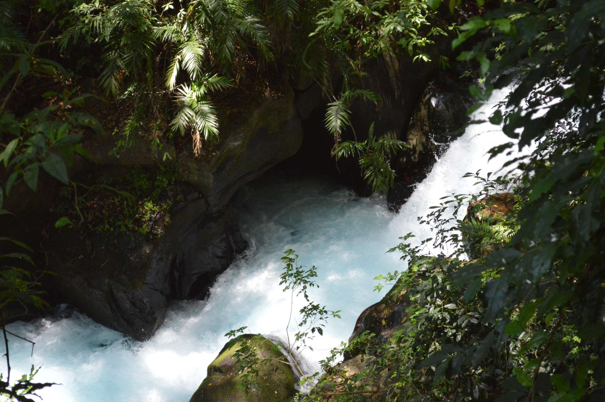 Near Golgota Falls at the Barranca del Cupatitzio National Park in Uruapan, Michoacan, Mexico